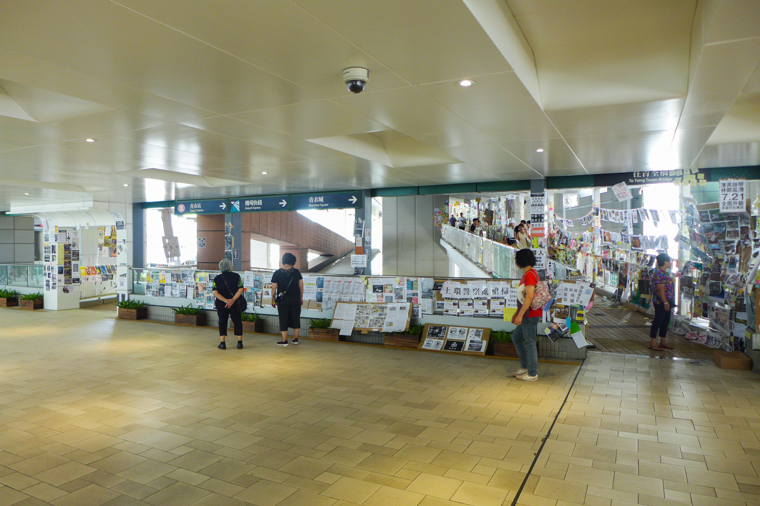 Tsing Yi Station Lennon Wall